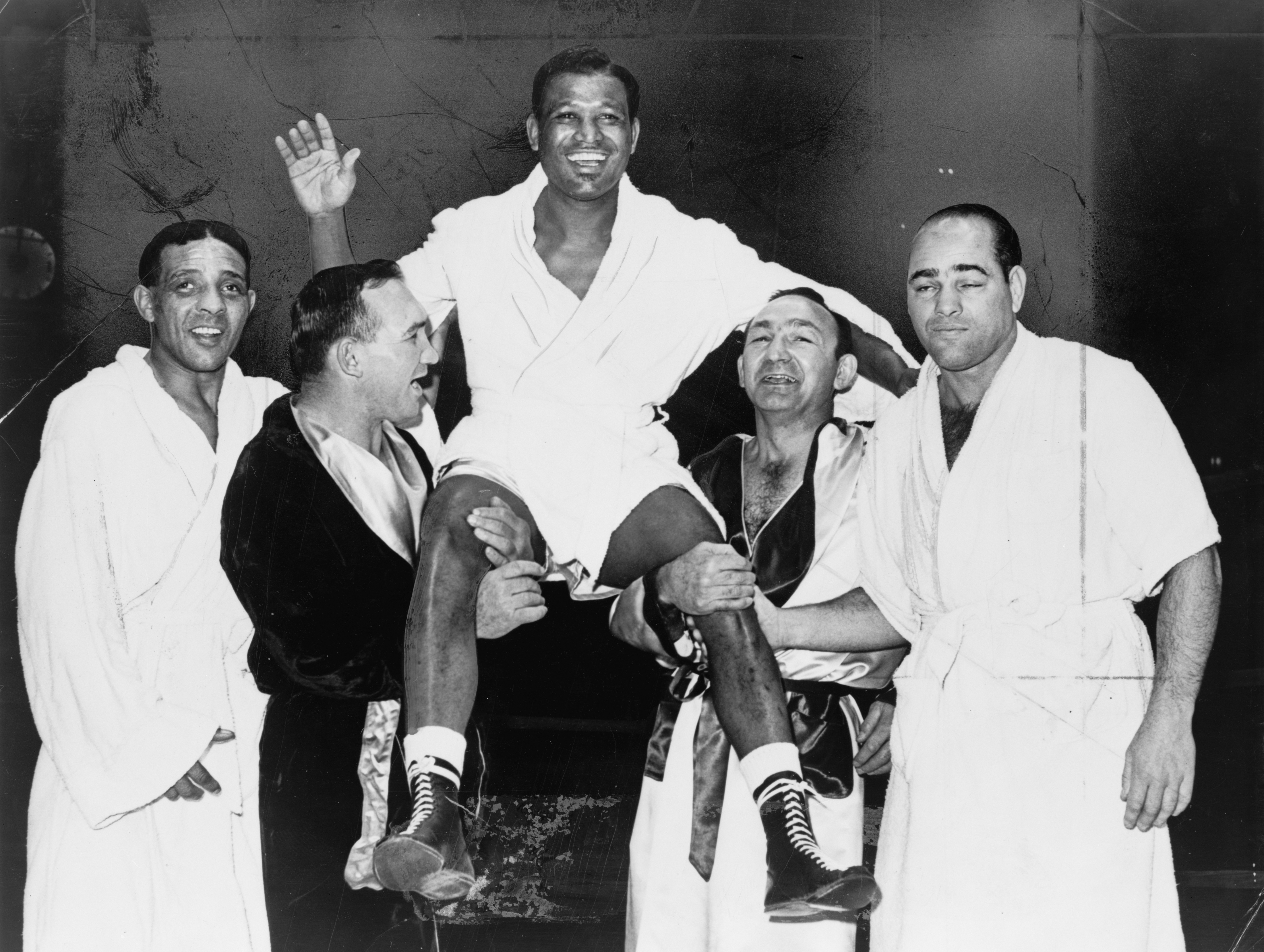 American boxer Sugar Ray Robinson (1921-1989) being held aloft by other boxers.